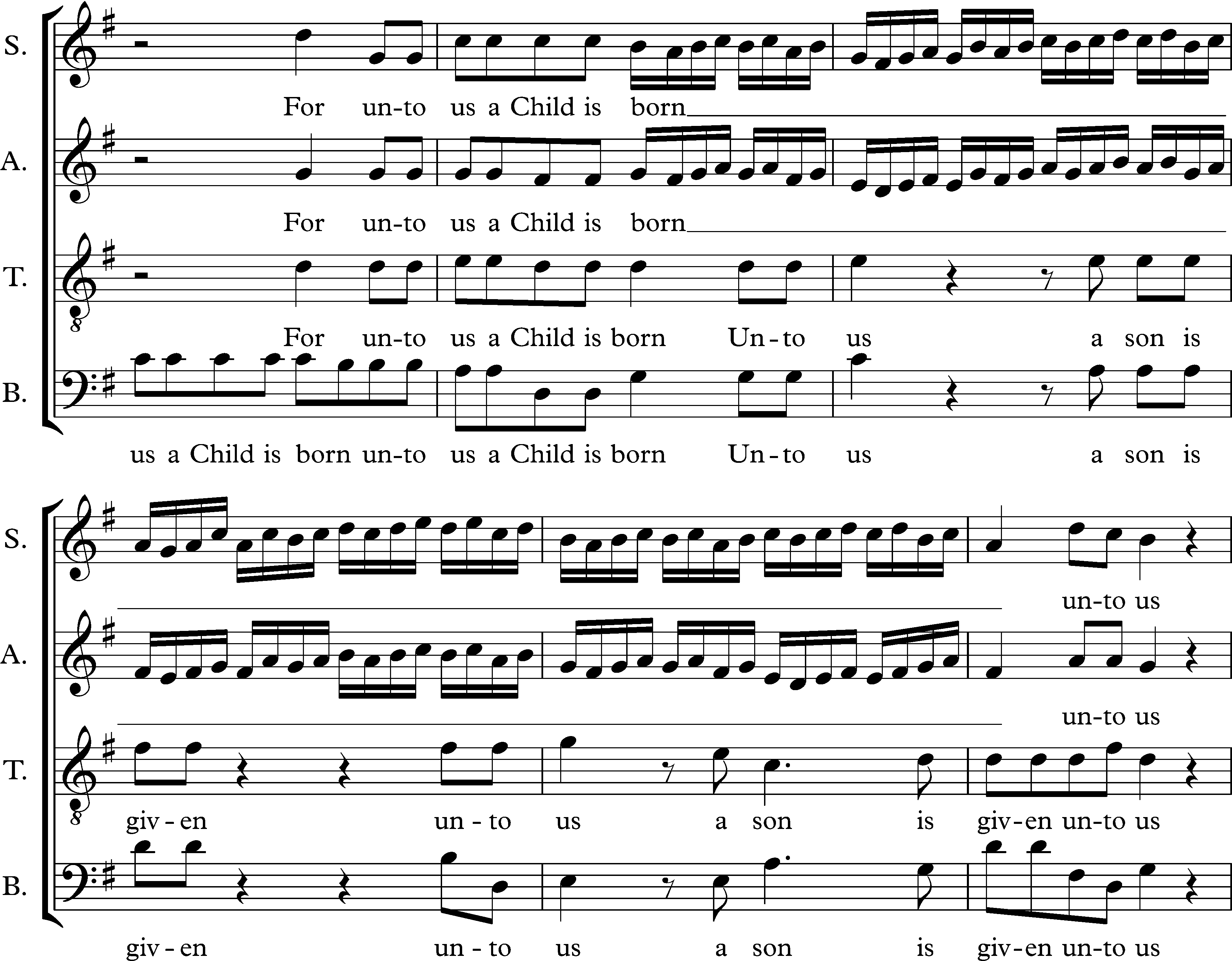 This is a brief excerpt from Handel's "For Unto Us a Child is Born" which displays the composer's use of florid melodic sequencing in the soprano and alto lines.